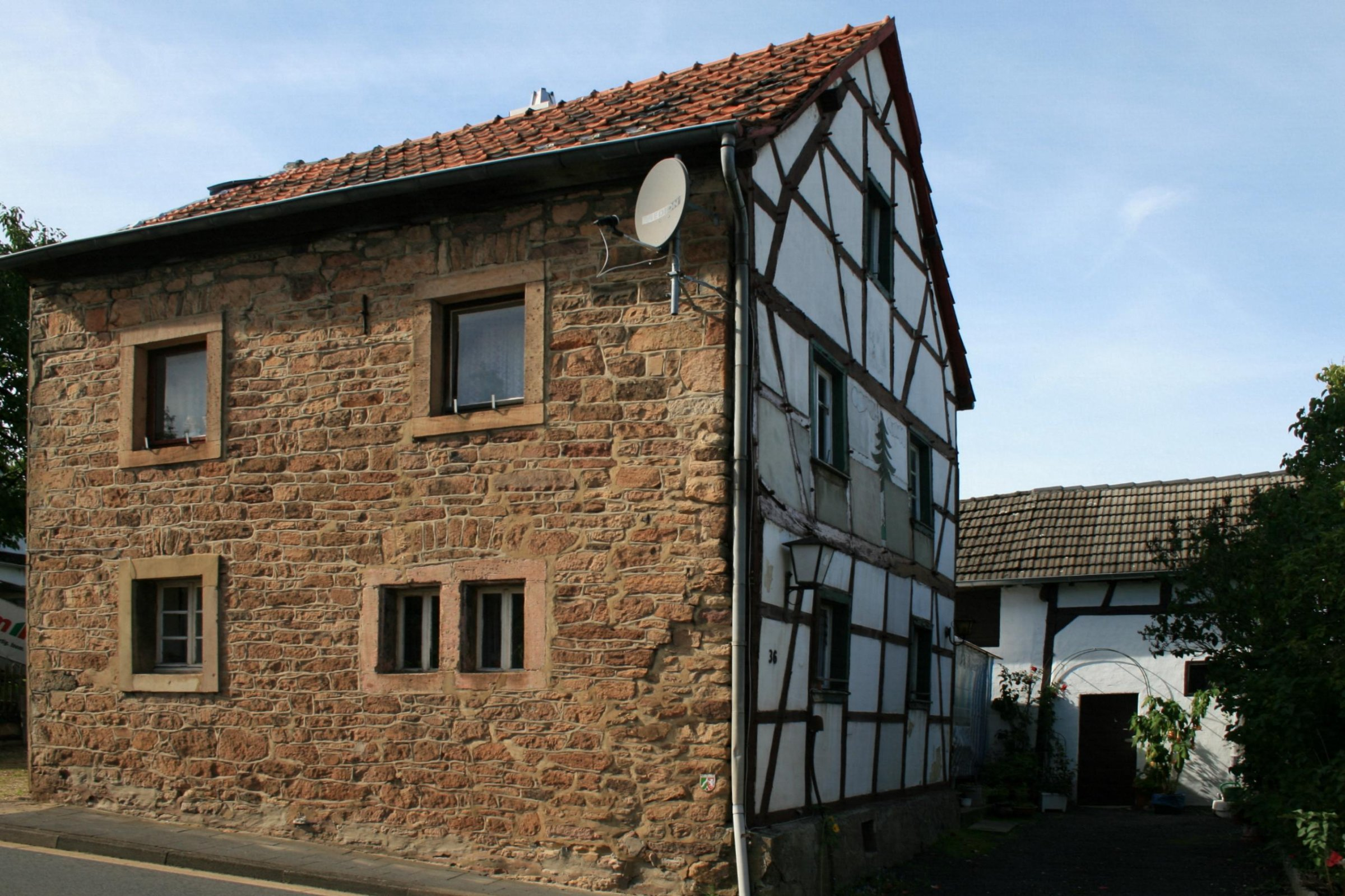 Cultural heritage monument No. 34 in Kreuzau